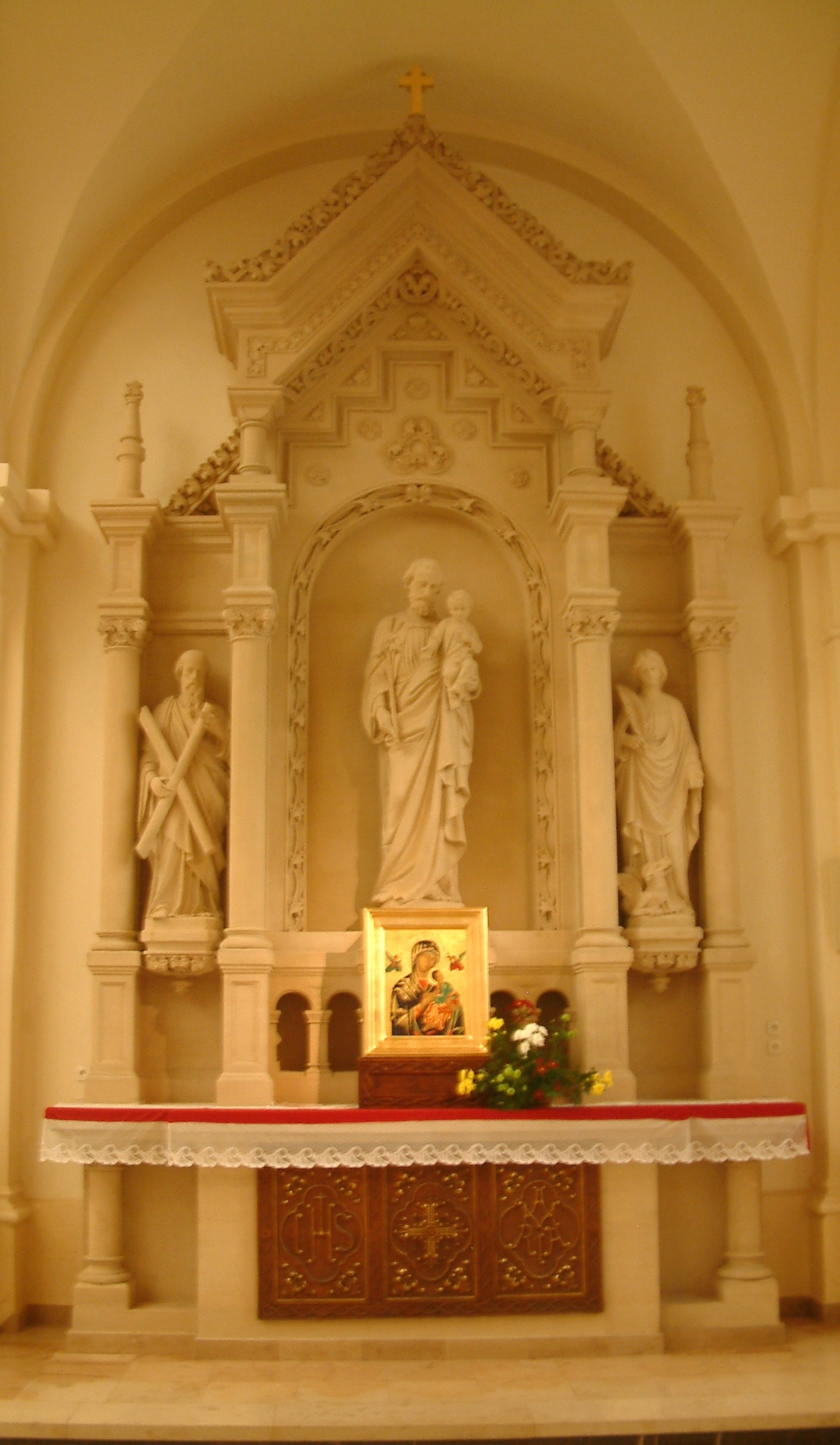 Church of Mother of Sorrow in Poznań, Altar of St. Joseph